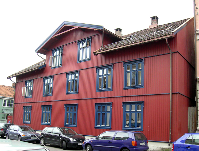 Hedmarksgata 4, Oslo. Built as apartment block 1878.